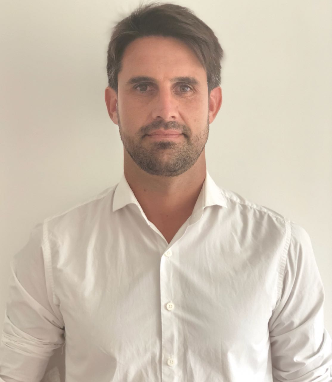 Guille Pereyra